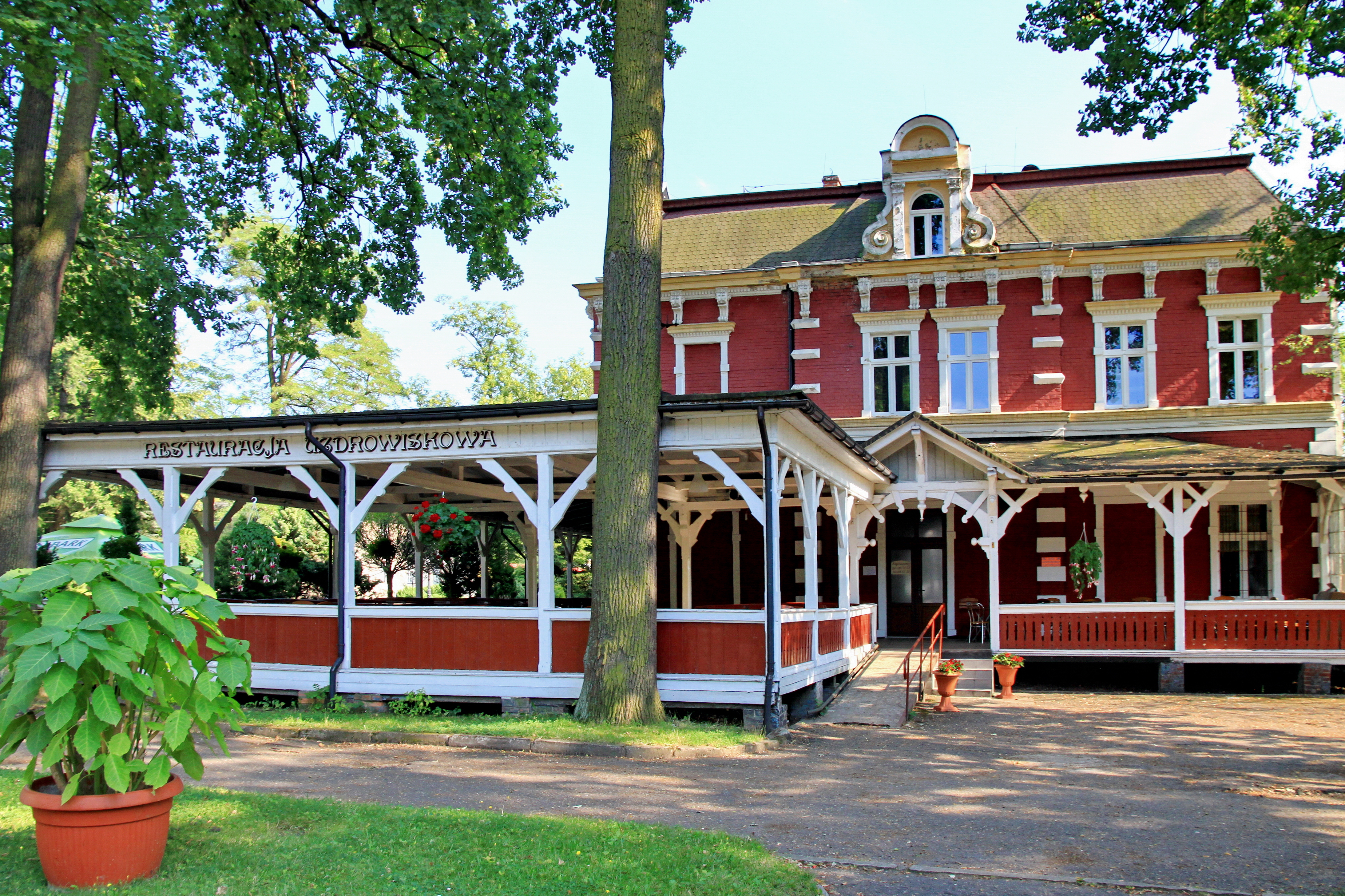 Administration building of spa Goczałkowice-Zdrój, build in 1880